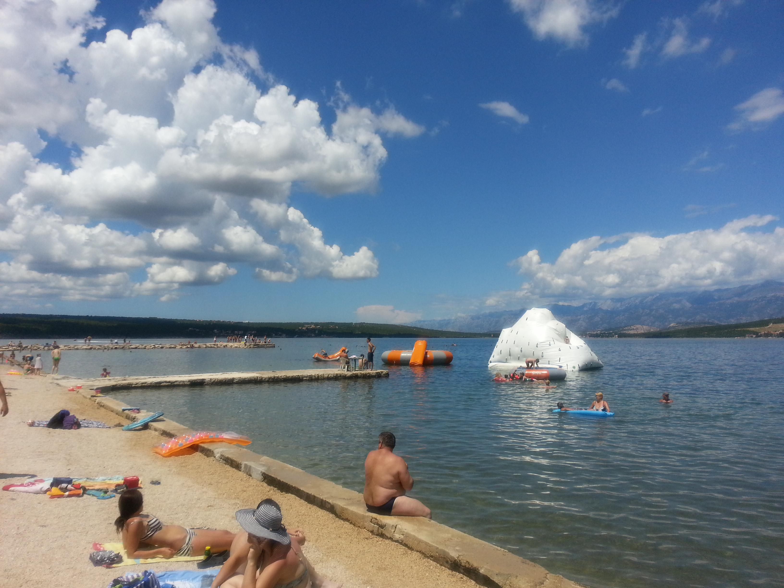 Gornji Karin